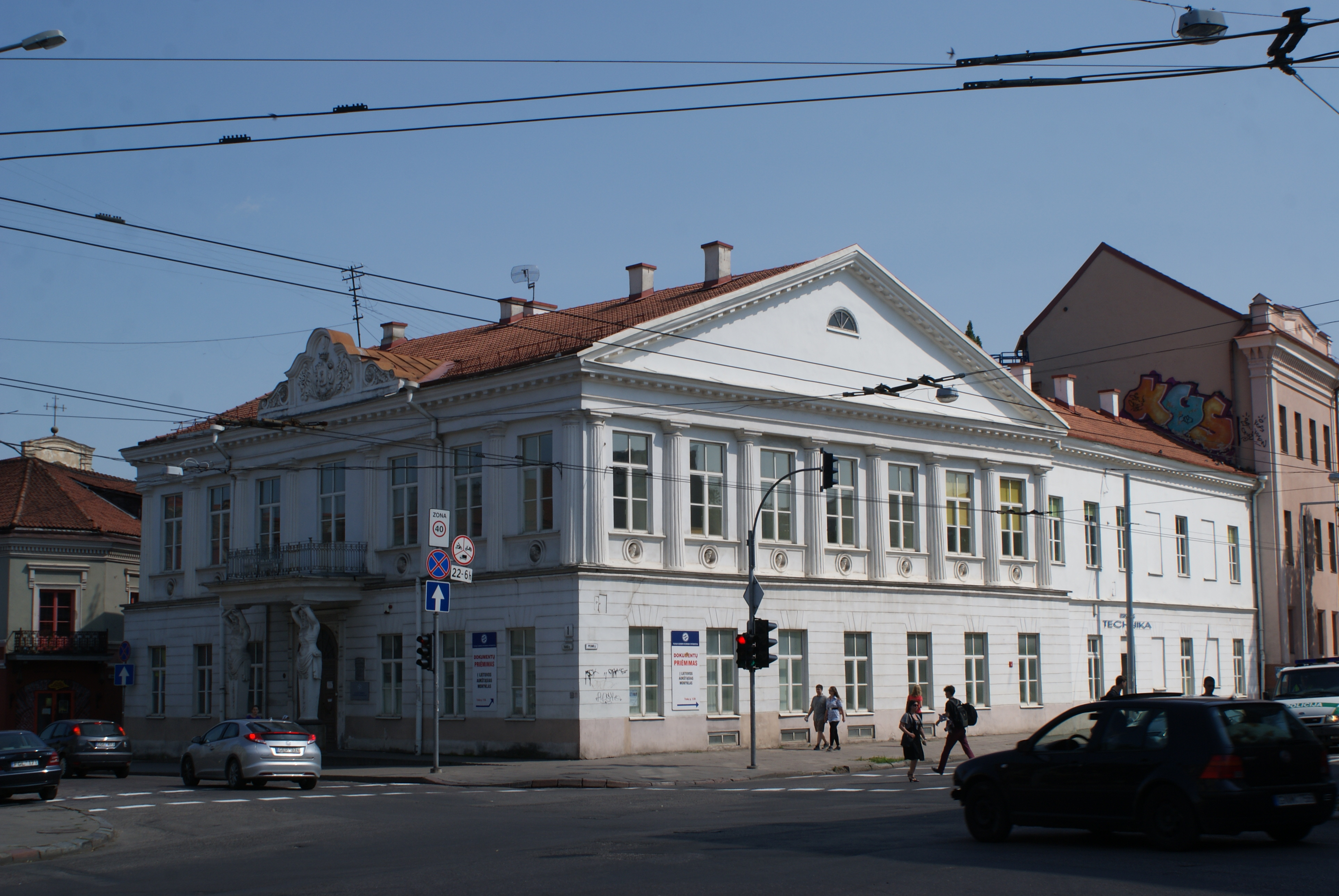 Vilnius streets